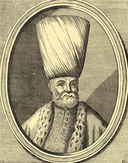 Ali Pasha (17th century)